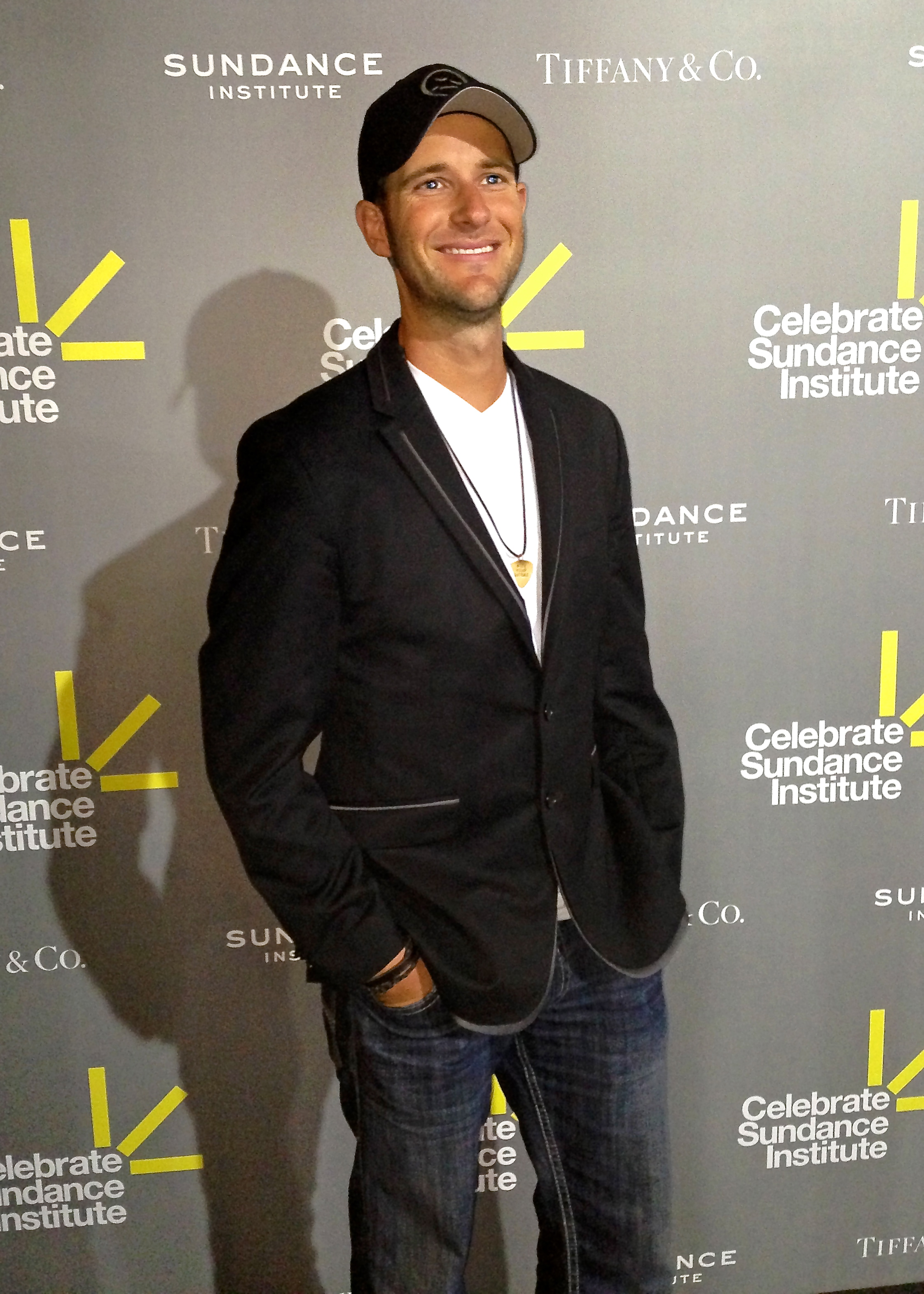 A. J. Carter Director on red carpet Sundance Institute 2013